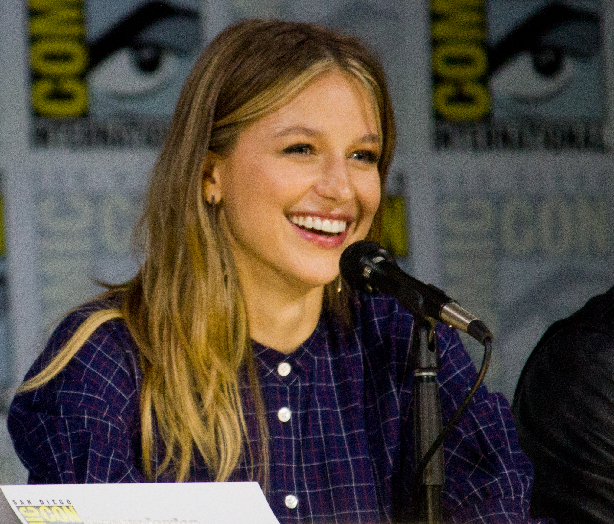 Supergirl: Cast & creators panel at SDCC 2017